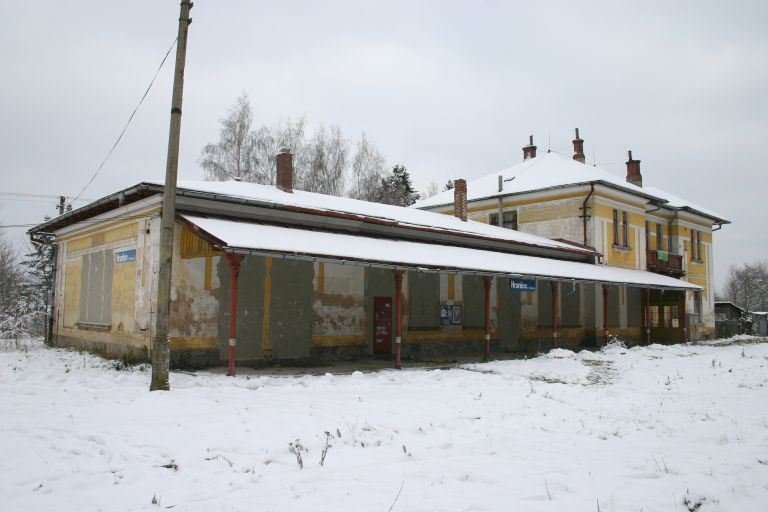 Train Station Hranice v Čechách (the building was demolished by SŽDC in 2014)